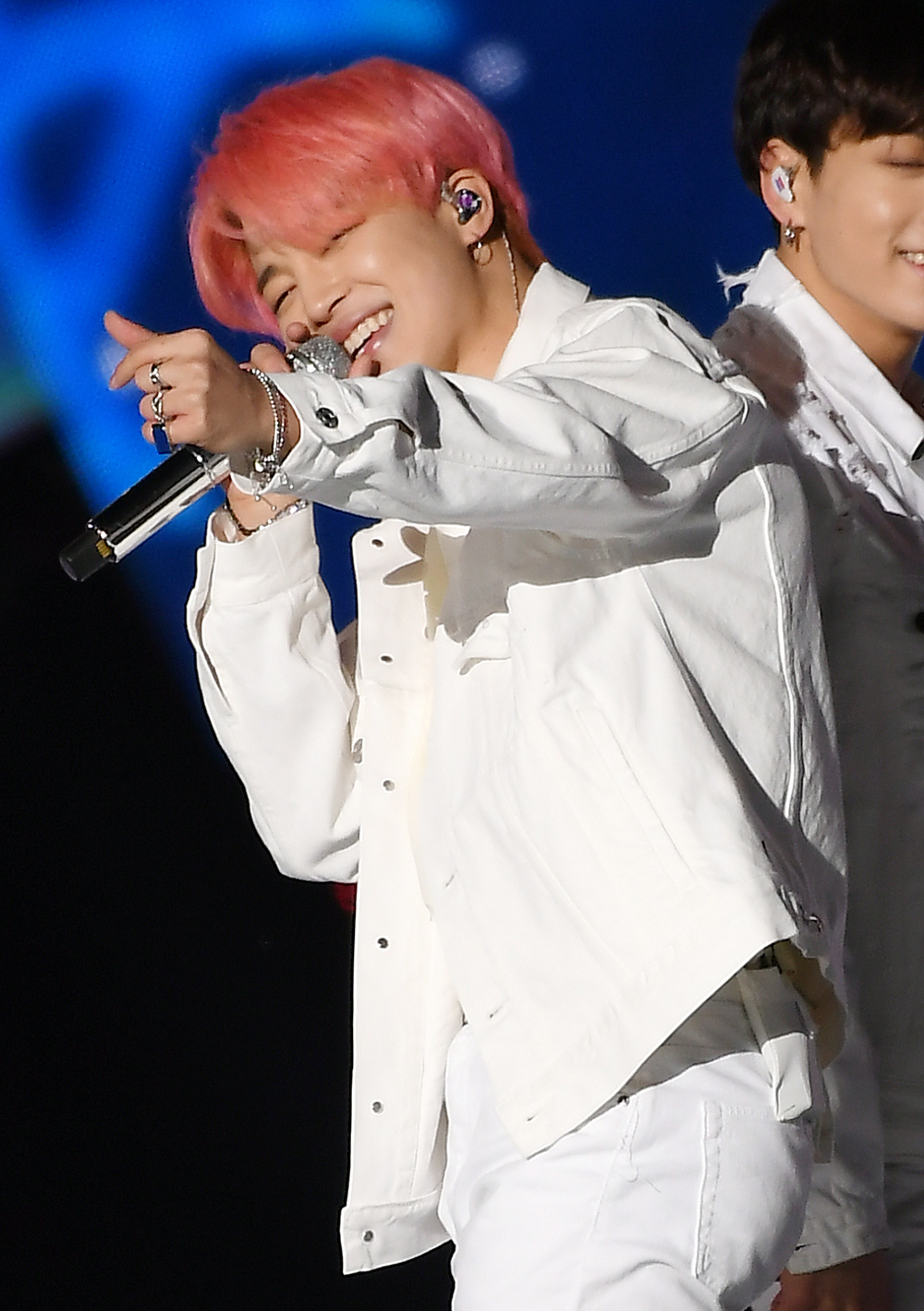 Jimin at the SBS Super Concert in Gwangju on 28 April 2019